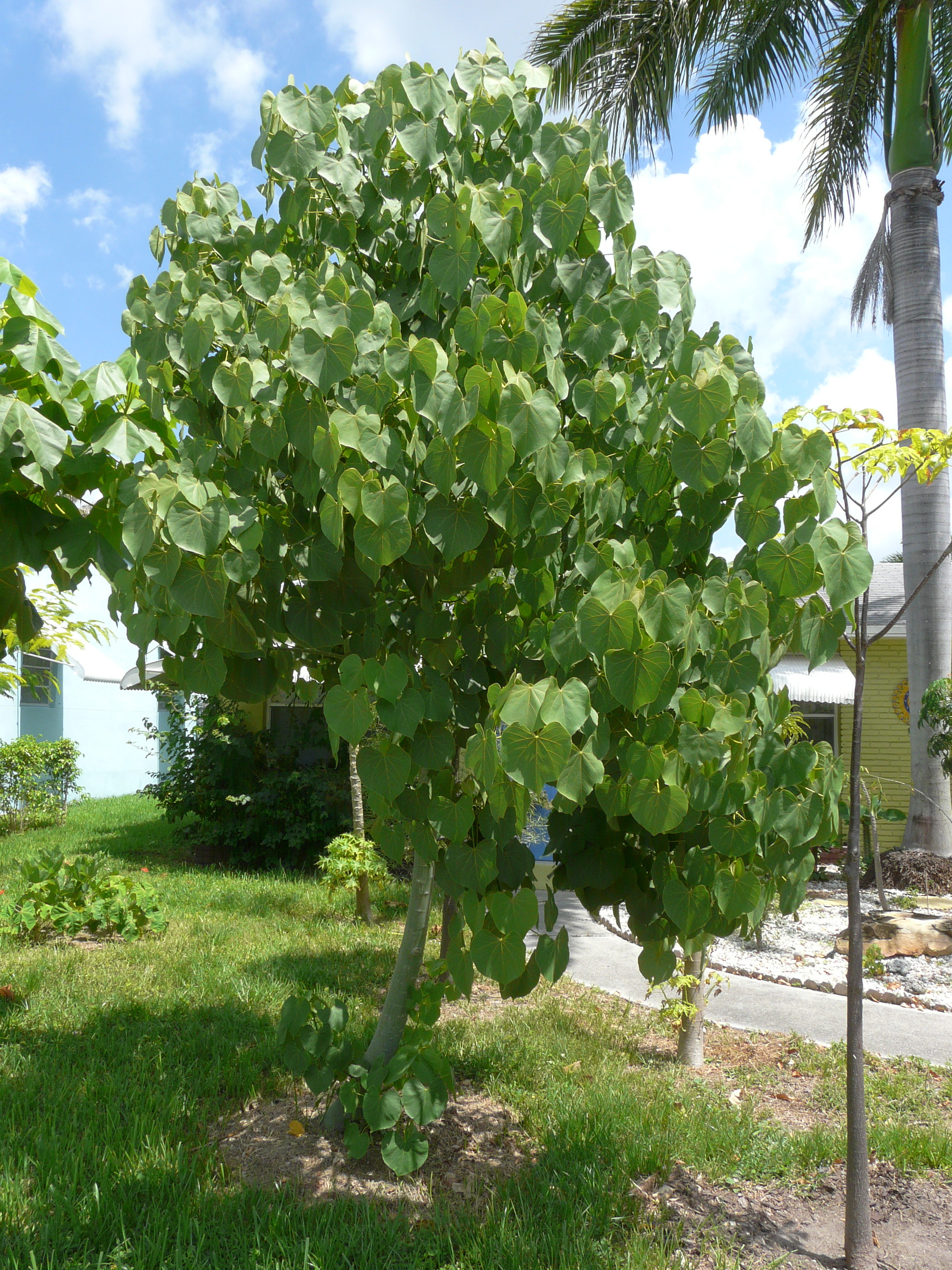 Cultivated Hildegardia populifolia tree in Hollywood, Florida, approx. 4 years old.